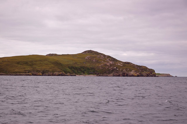 North east of Eilean Dubh, Summer Isles from MV Summer Queen